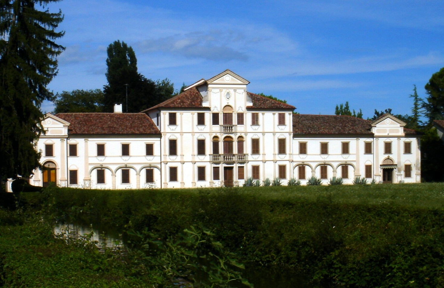 Codognè, Treviso, Italy: Villa Toderini (XVIII century).